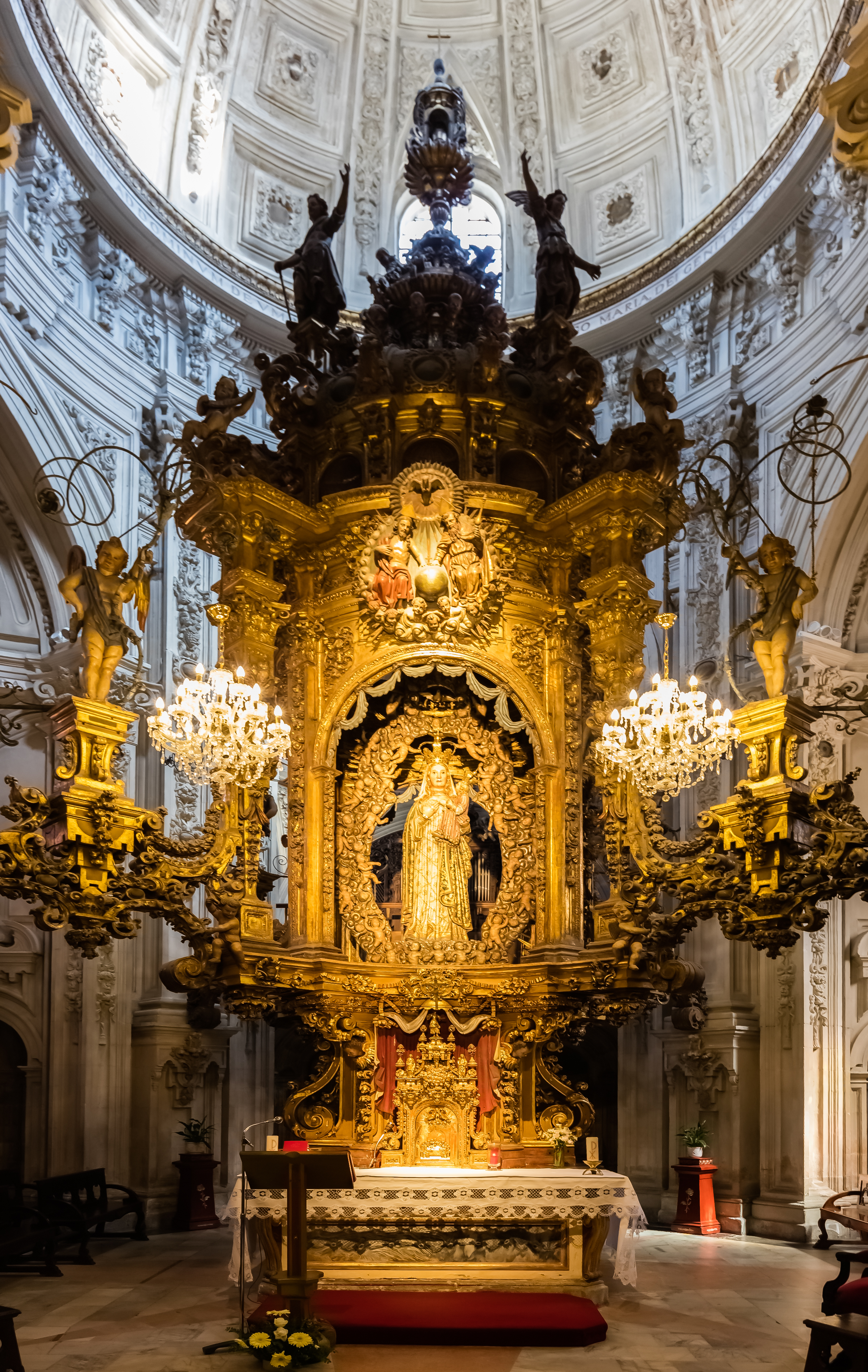 St Mary Cathedral, Lugo, Spain